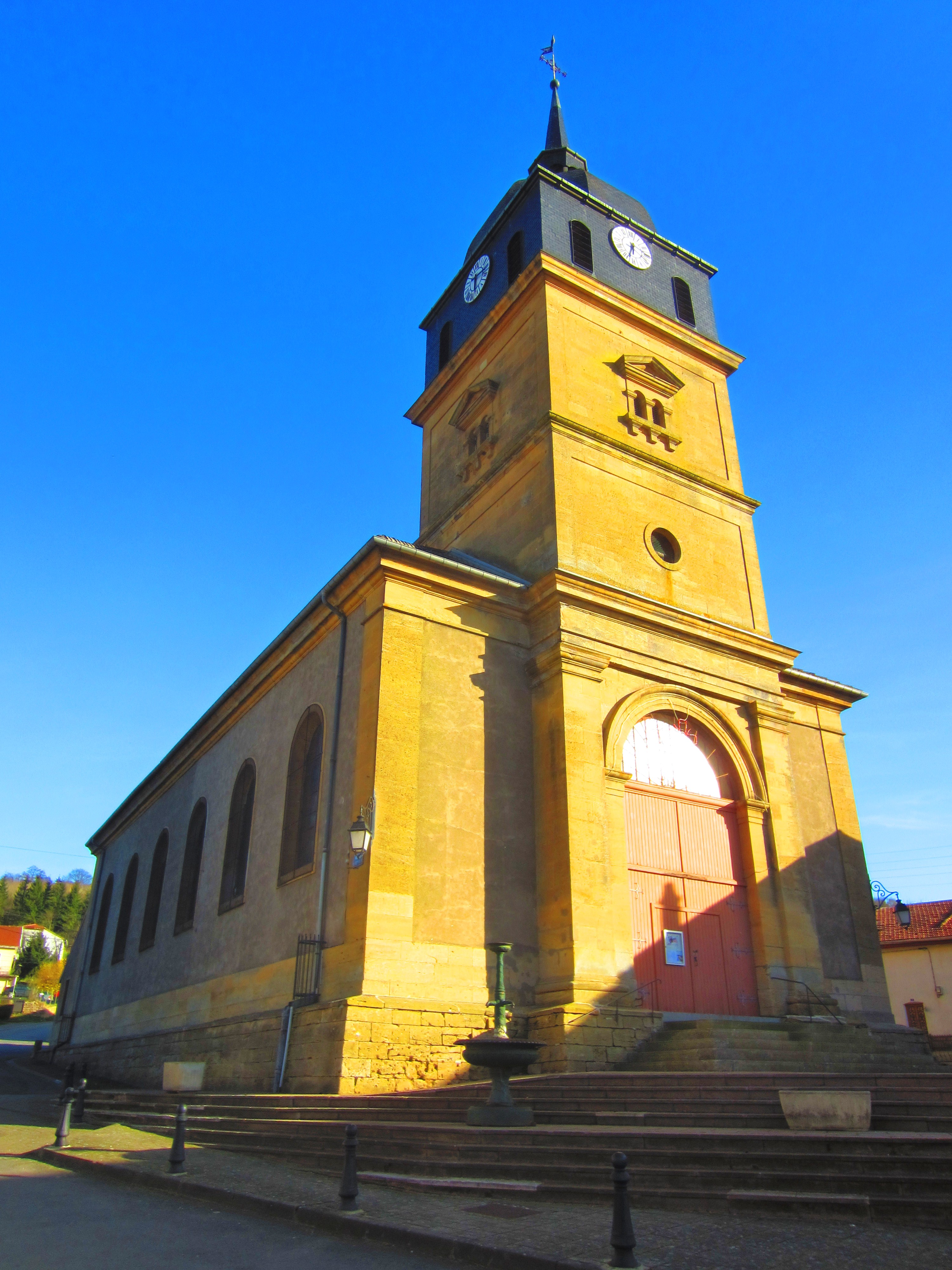 Charency Vezin church